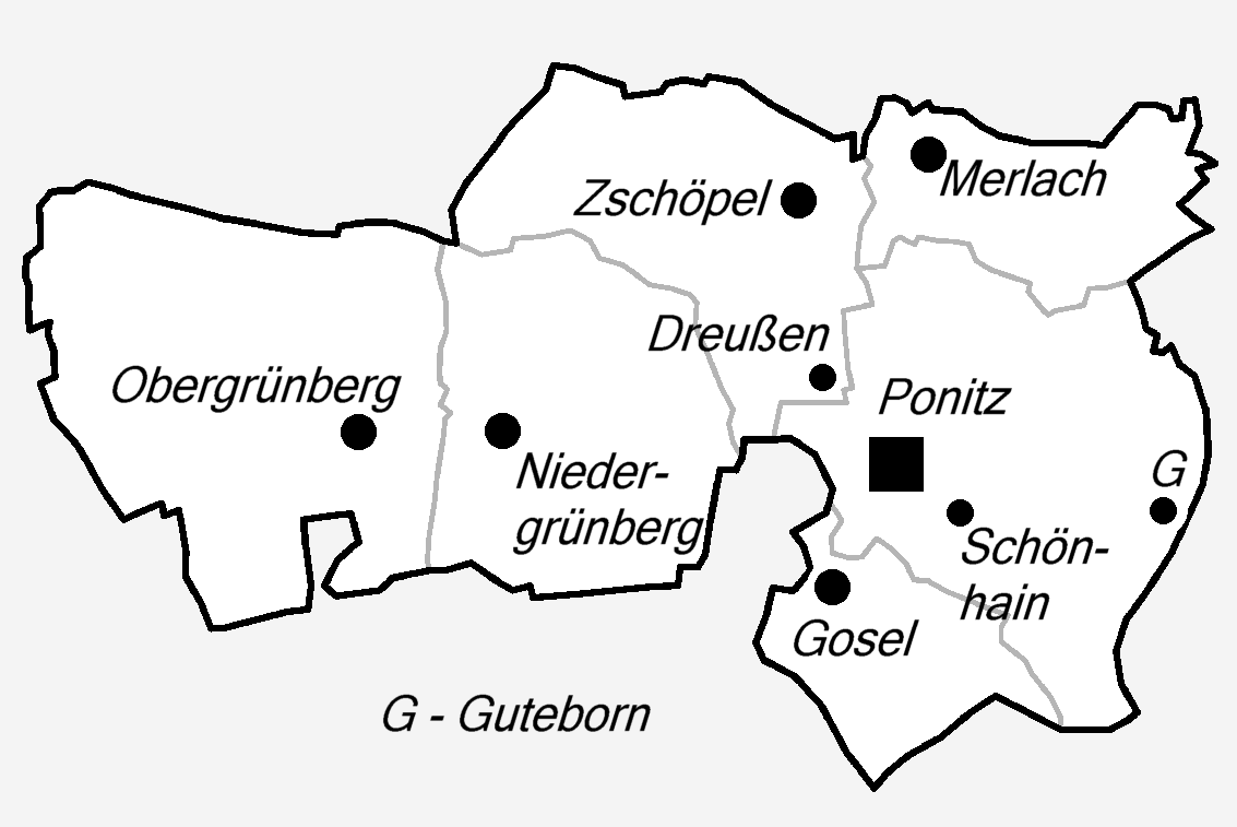 District-Maps of Ponitz.